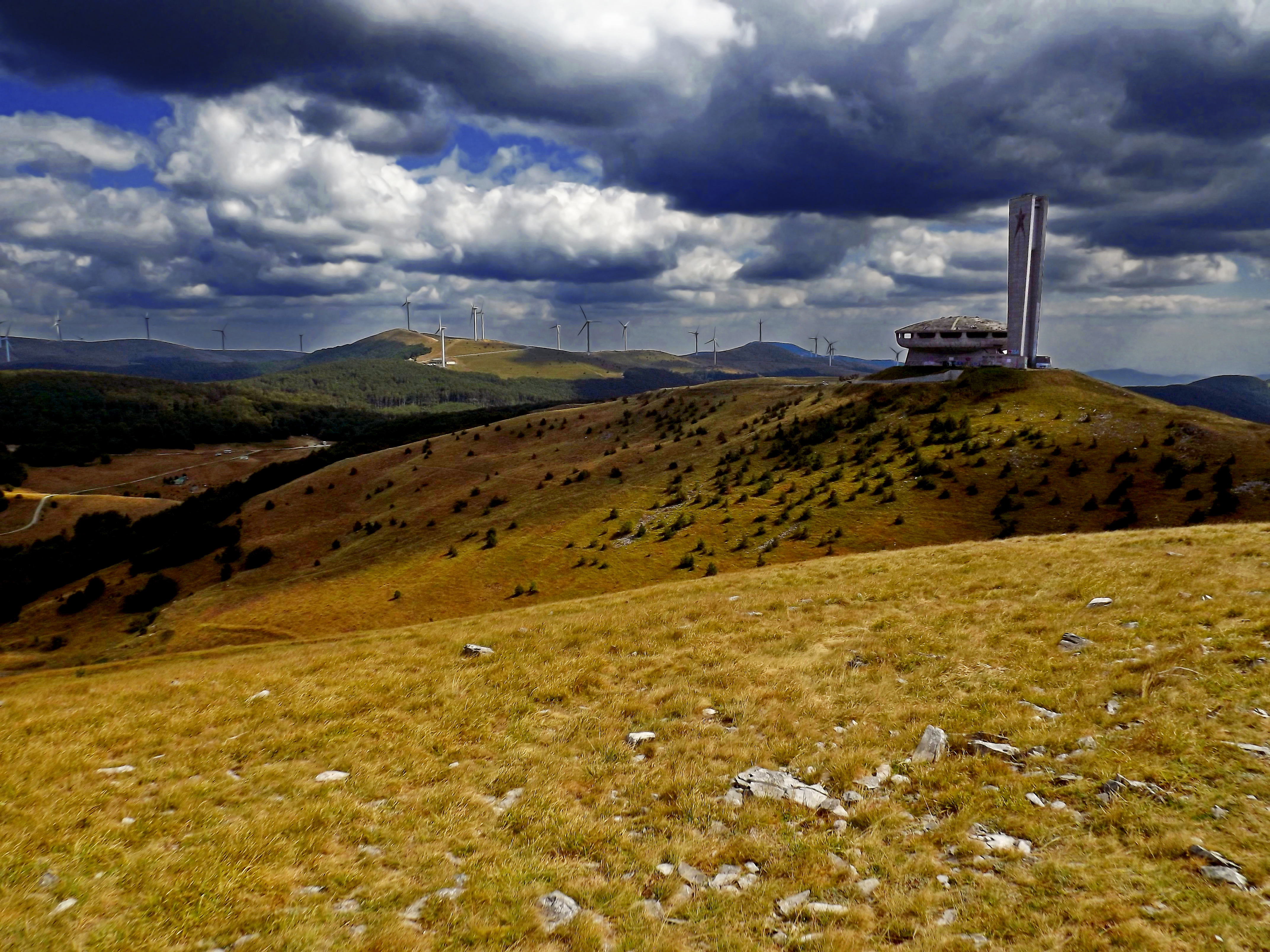 Buzludzha monument